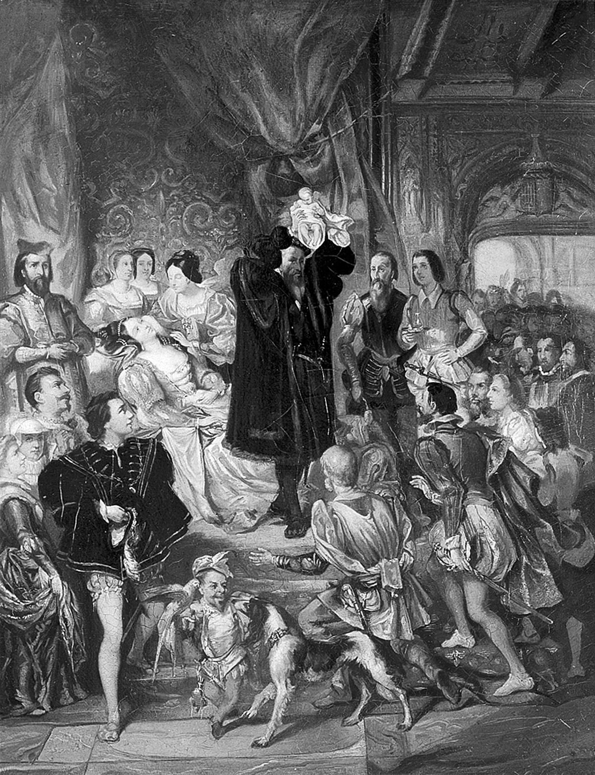 The birth of Henri IV at the castle of Pau. Oil painting after Eugène-François-Marie-Joseph Devéria. Iconographic Collections Keywords: childbirth; Parturition; Henry IV; Eugène-Francois-Marie-Joseph Devéria; E.F.M.F. Deveria